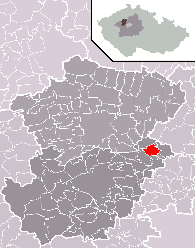 Location of Blevice municipality within Kladno District and administrative area of Kladno as a Municipality with Extended Competence.